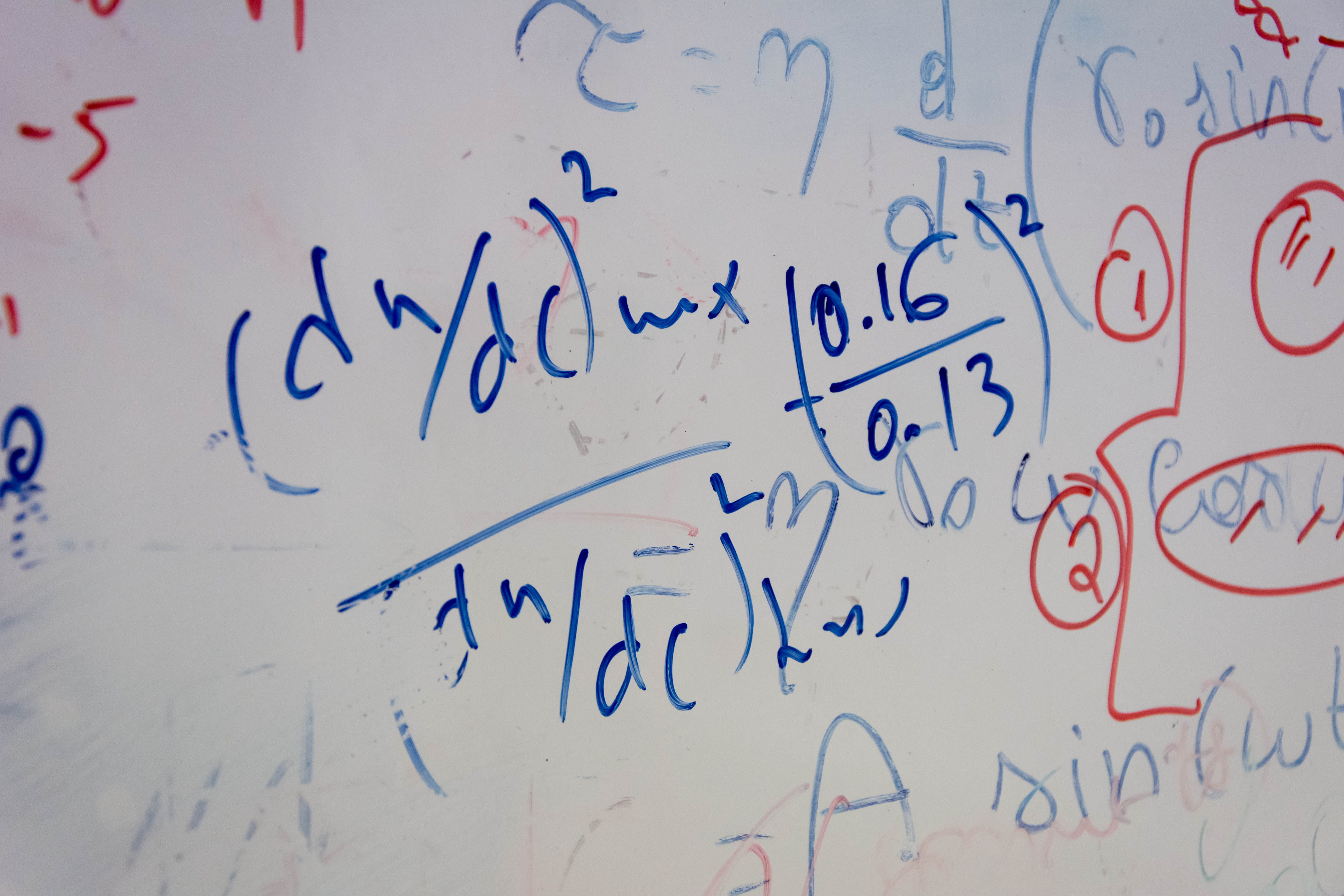 Calculation of refractive index increment (dn/dc), analyzing light-scattering (LS) data. The refractive index increment (dn/dc) refers to the rate of change of the refractive index with the concentration of a solution for a sample at a given temperature, a given wavelength, and a given solvent. Author: Athanasios Bogris (FORTH-IESL)